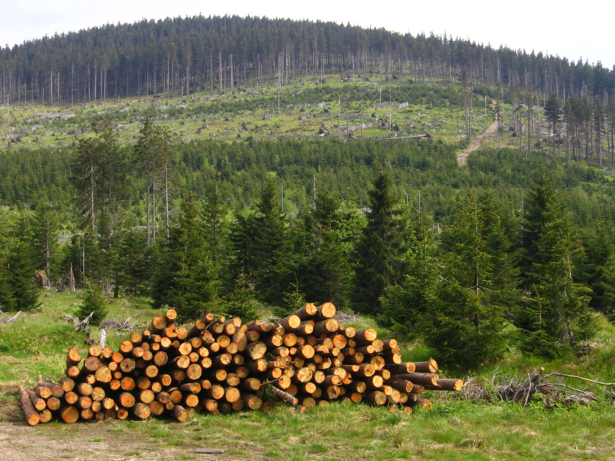 Bark beetle destrozing forest, Šumava